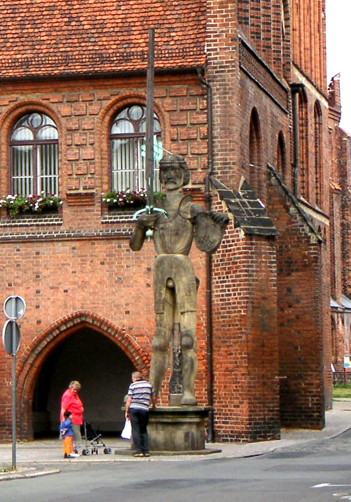 Roland Statue in Stendal